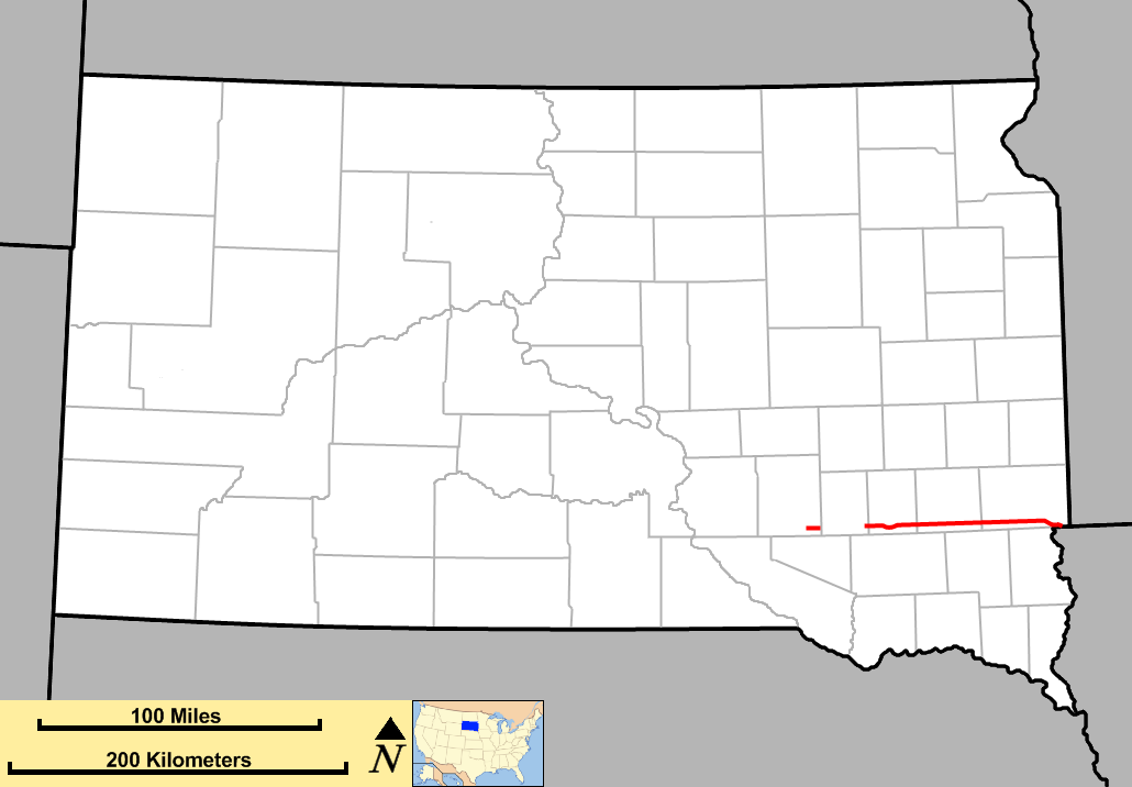 Route (in red) of South Dakota Highway 42 in the United States. Note:The state constitution also specifies a short segment running from US 281 to the Davison County line.